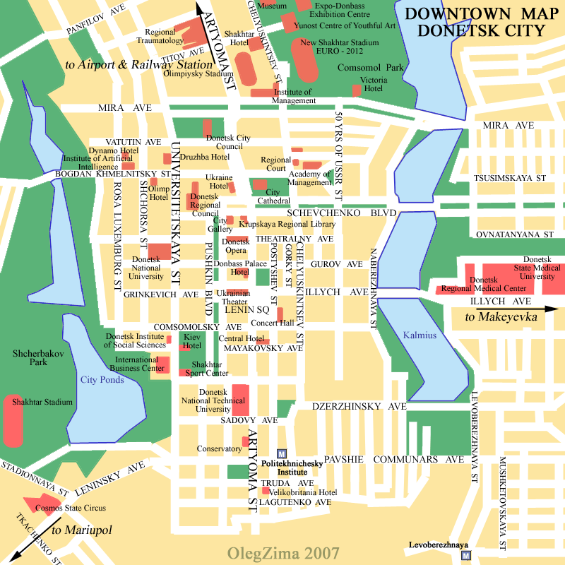 map of Donetsk downtown (Ukraine)